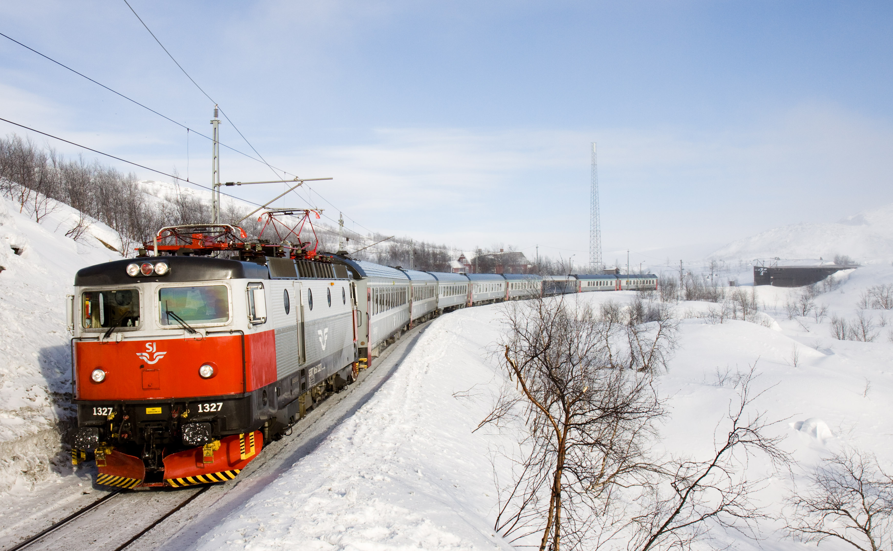 SJ night train to Narvik pulled by an Rc 6 engine. The plateau is called Björnfjell and is located in Norway, right after the Swedish border.